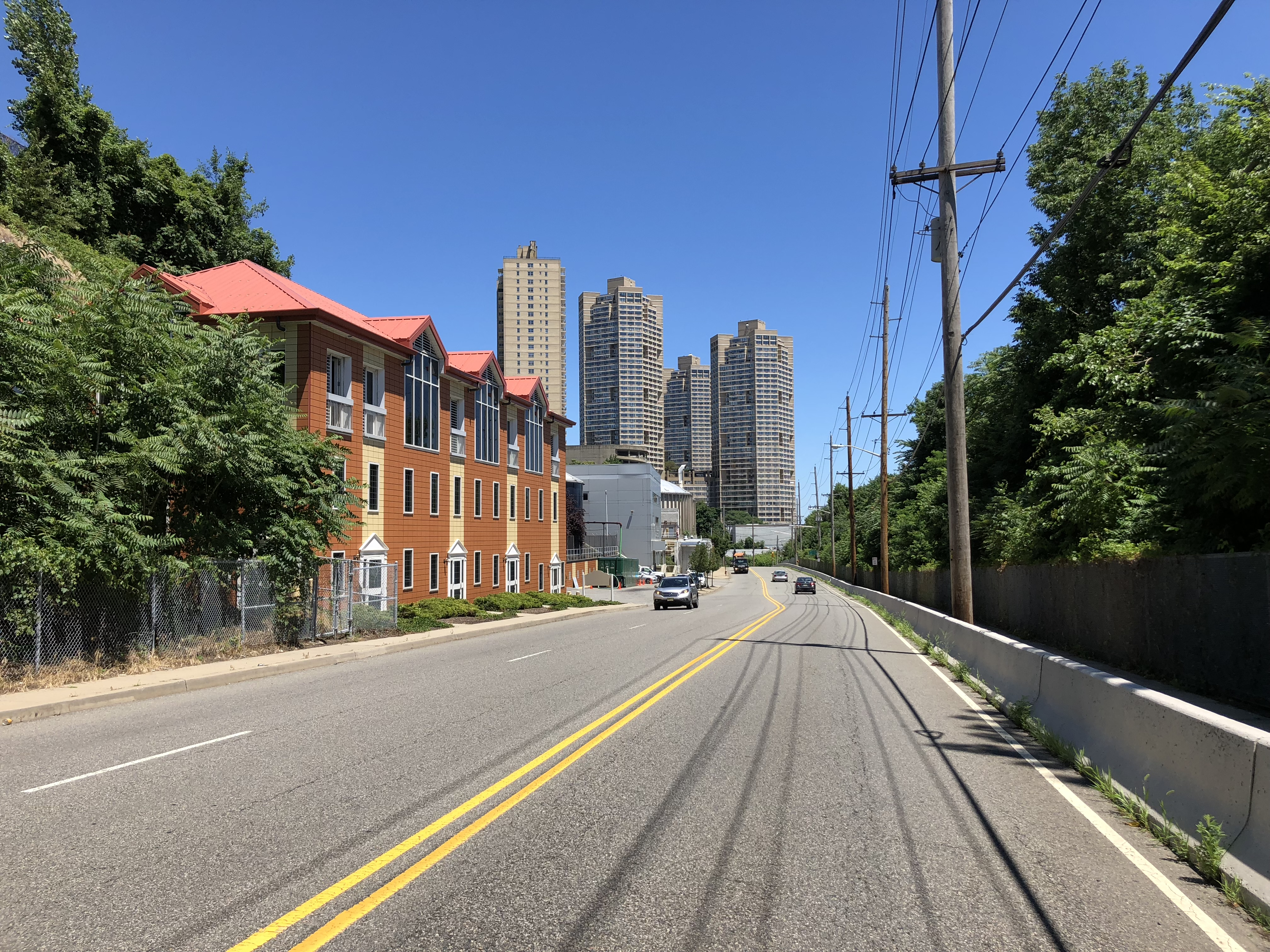 View north along Hudson County Route 505 (Anthony Defino Way) between John F Kennedy Boulevard East and Farragut Place in West New York, Hudson County, New Jersey